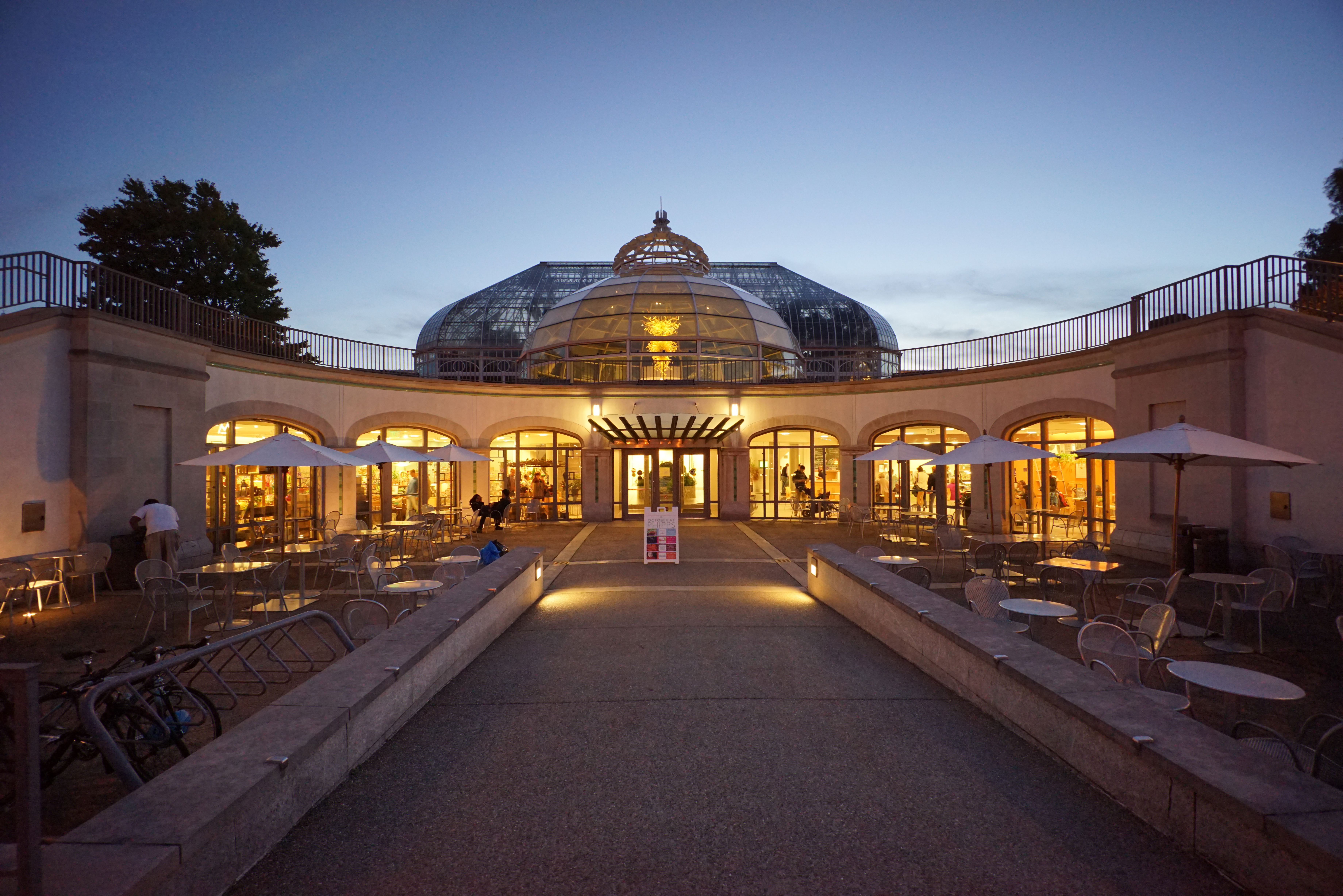 The Phipps Conservatory and Botanical Gardens is a complex of buildings and grounds set in Schenley Park, Pittsburgh, Pennsylvania. Founded in 1893, the gardens serve to educate and entertain the people of Pittsburgh with formal gardens.